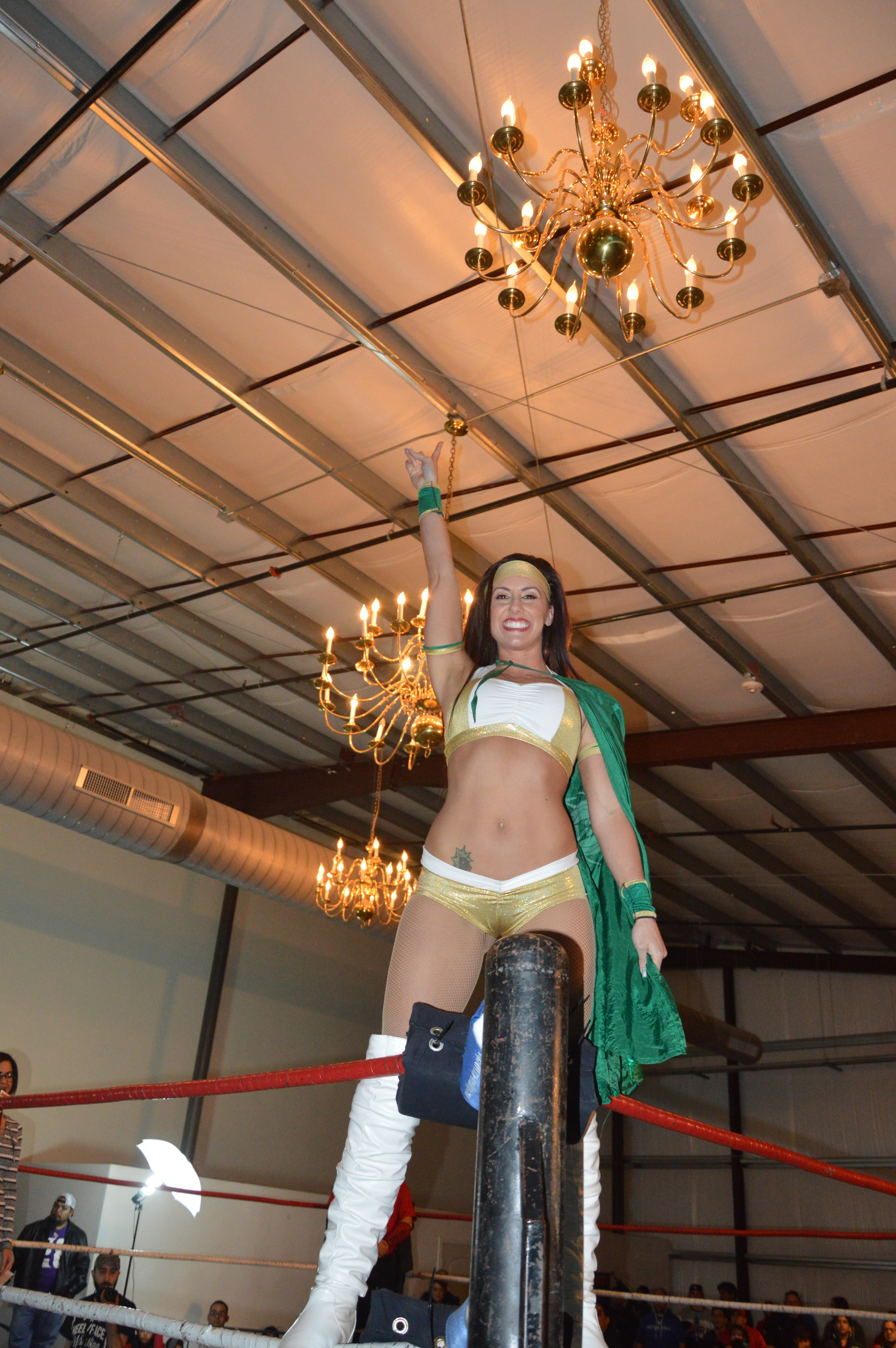 RCW on January 27 with Jim Ross, Jeff Jarrett, Hornswoggle, LAX, Bushwhacker Luke, Katie Forbes, Santana Garrett and more